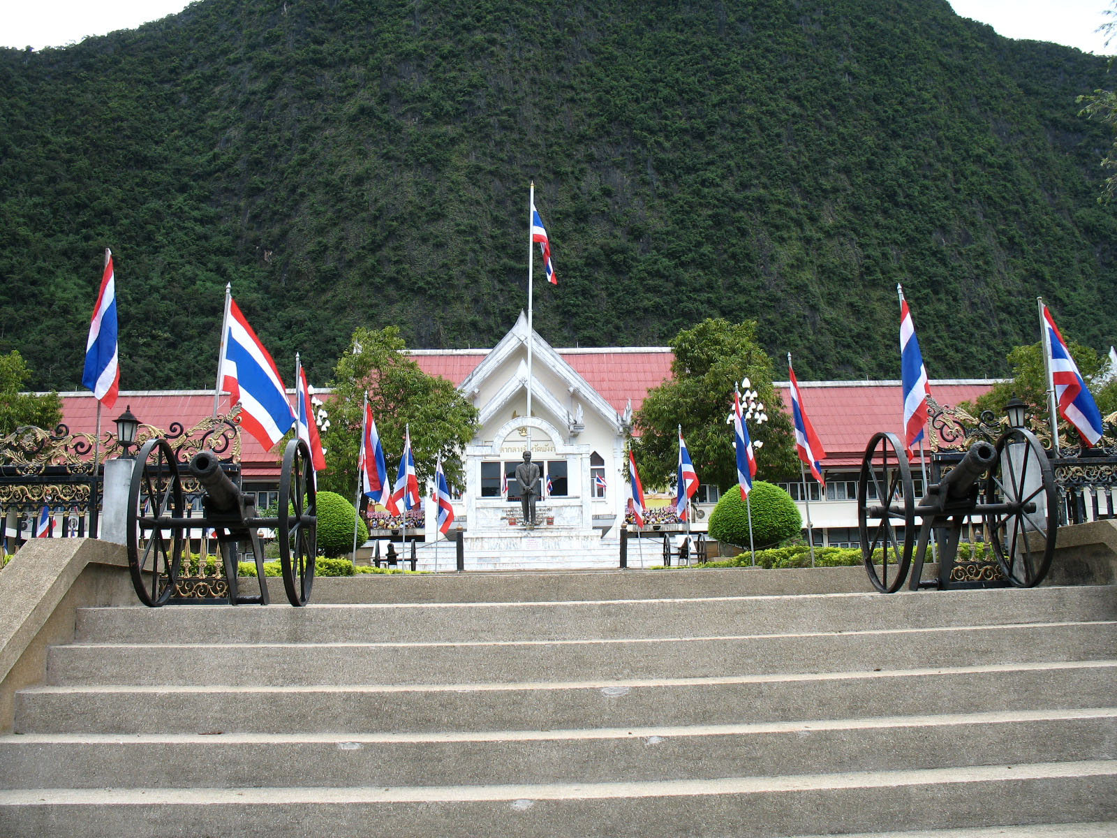 The Phang Nga City Hall is located in front of the Chang Mountain.